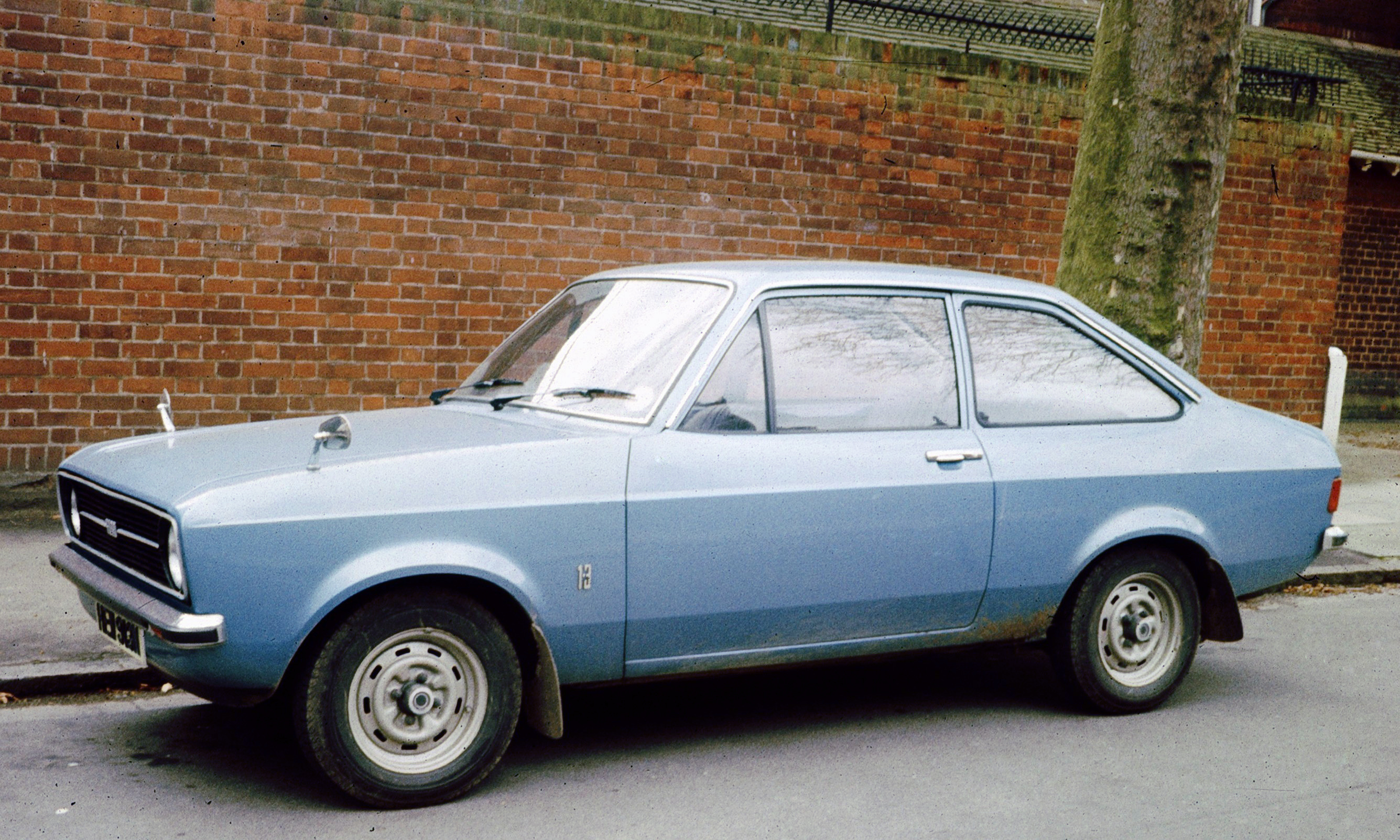 Ford Escort 2 1.3 outside Newnham College, Cambridge